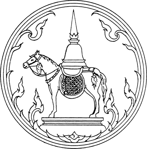 Provincial seal of Phrae province.